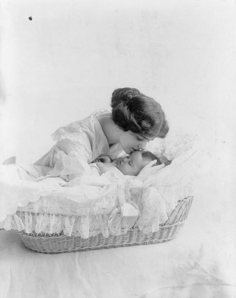 Young woman kissing baby in bassinet